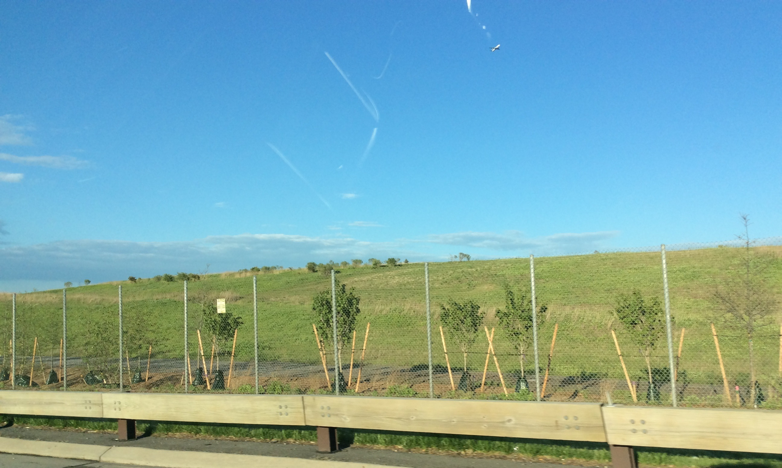 Looking at the Pennsylvania Avenue Landfill from the eastbound Belt Parkway, just south of Starrett City, Brooklyn.